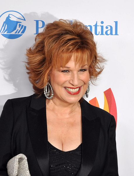 Television personality Joy Behar of "The View" attends the 21st Annual GLAAD Media Awards on March 13, 2010 at the Marriott Marquis Hotel in New York City.